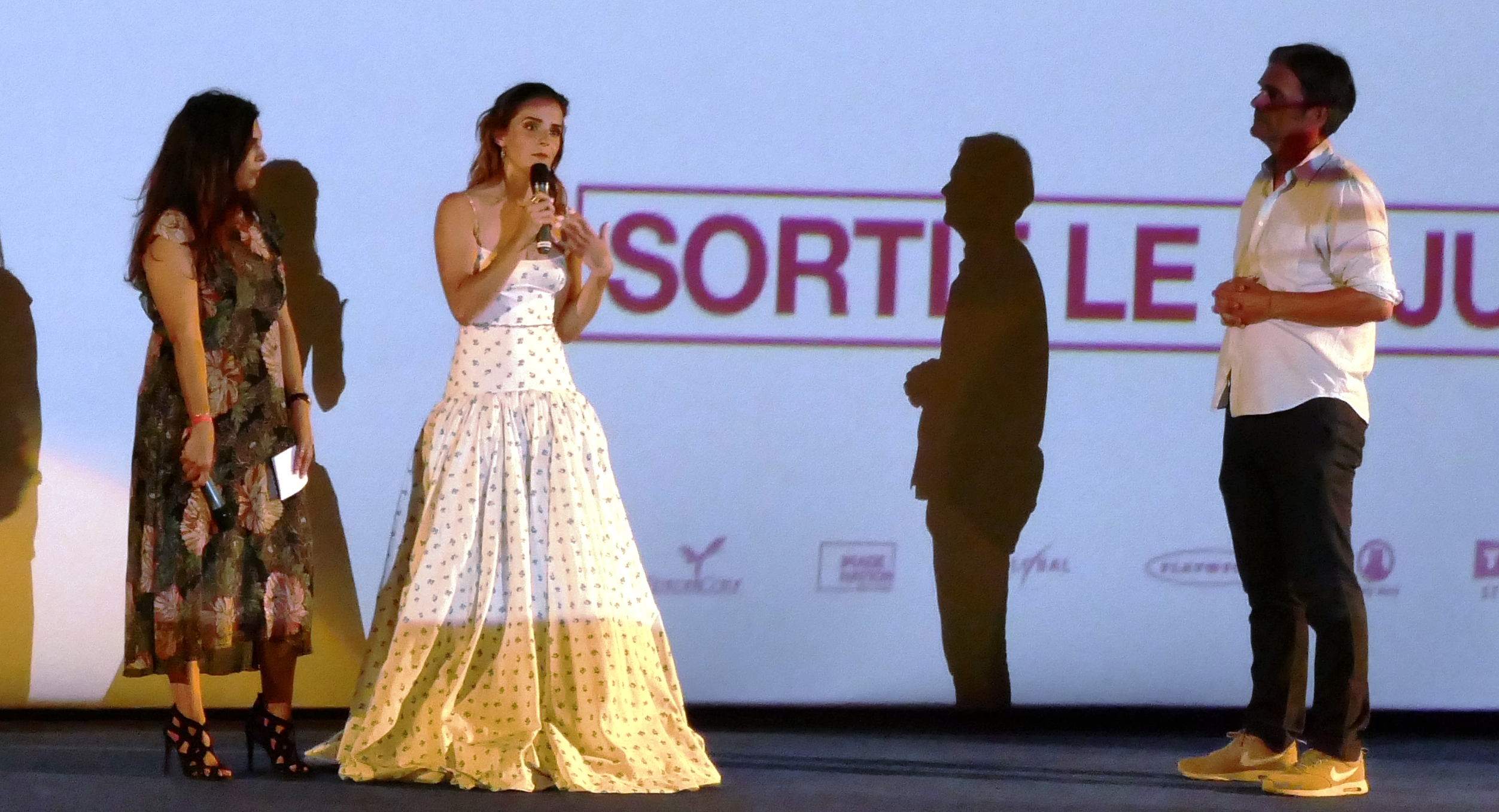 Emma Watson at the Paris Premiere of "The Circle" (21/06/2017, UGC Normandie)